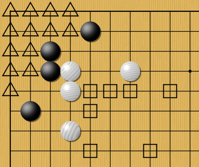 Go Game - territory and influence conceptions